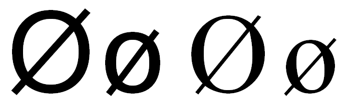 Latin letter Øø.